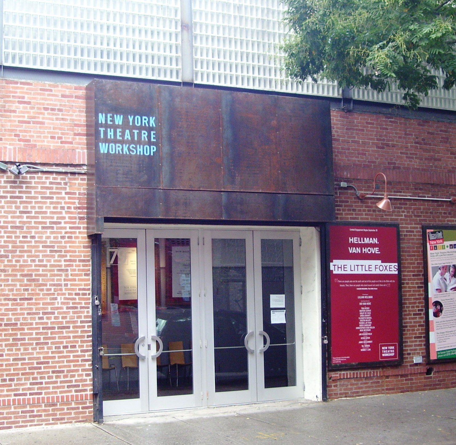 The entrance to the mainstage of New York Theatre Workshop at 79 East 4th Street between 2nd Avenue and the Bowery in the East Village neighborhood, of lower Manhattan, New York City.